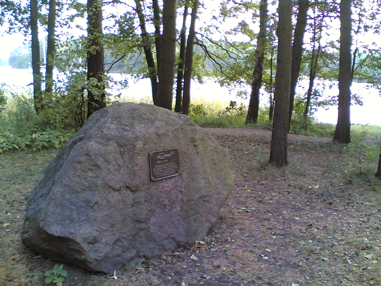 The Memorial for No. 36 Squadron of the Finnish Air Force, World War II, in Vuosaari, Helsinki, Finland